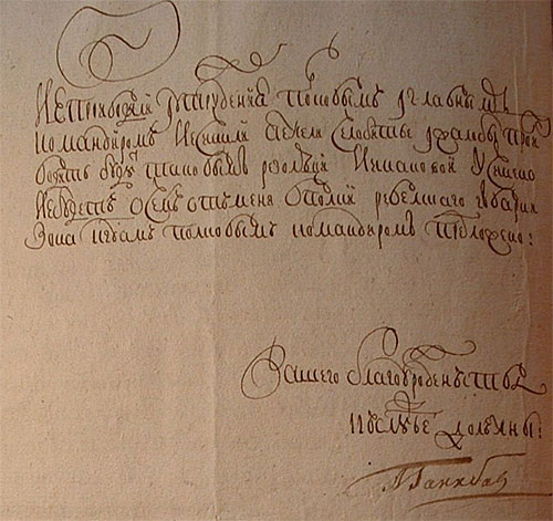 Letter signed by А. Ганибал (A. Ganibal) March 22, 1744. The document is kept in Tallinn City Archive. The African Abram Gannibal was the governor/commander of Reval (Tallinn) during the period 1742-1752. Gannibal is also known as the great grandfather of the Russian poet A. S. Pushkin.